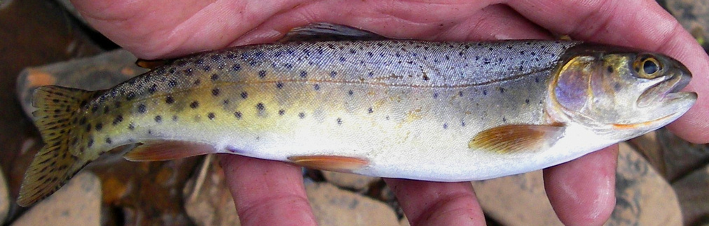 Photo Craig D Young